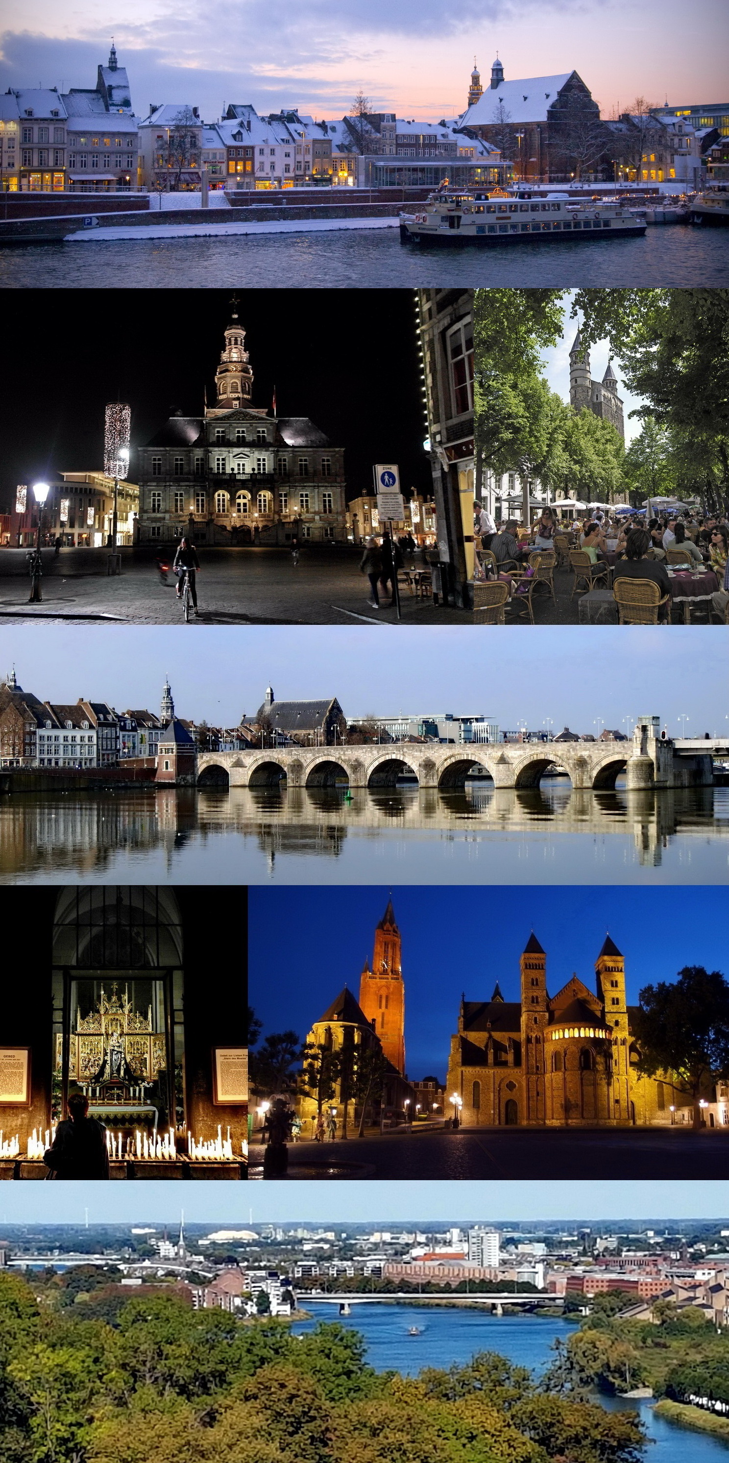 Photo montage of Maastricht, the Netherlands. The following files were used (top to bottom, left to right): File:Maastricht sunset.jpg File:Maastricht, kerstverlichting 2014, Markt01.JPG File:Maastricht platz vor liebfrauenkirche.jpg File:Maasbrug Maastricht - panoramio.jpg File:Maastricht, kapel Sterre der Zee, 2014.JPG File:20140525 Maastricht; Sint-Janskerk and Sint-Servaasbasilica at dusk.JPG File:2016 Maastricht, St-Pietersberg, Lichtenberg 22.jpg All photos under a Creative Commons Share Alike license.